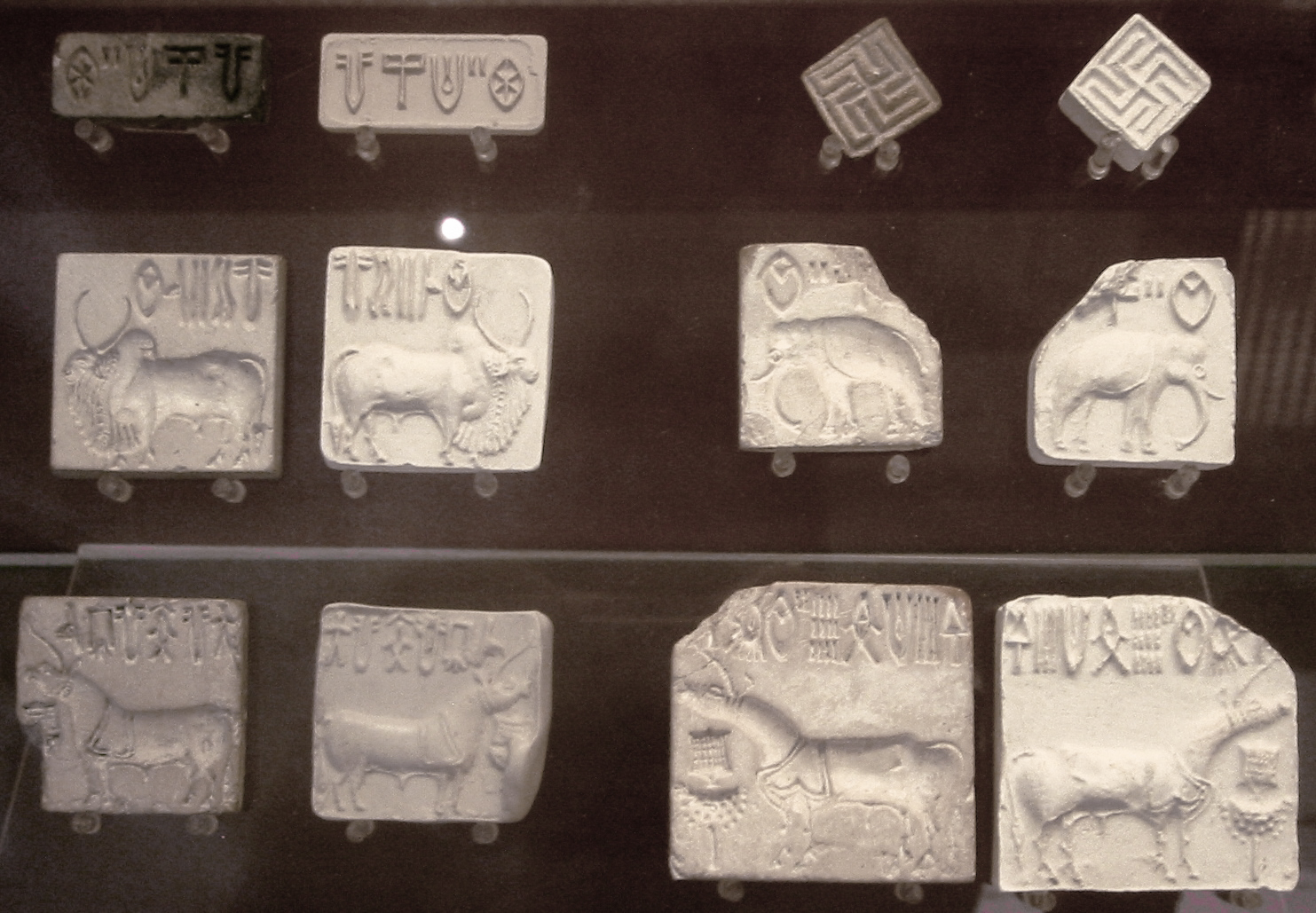 Collection of seals of the Indus Valley Civilization. also showing Swastikas. British Museum.